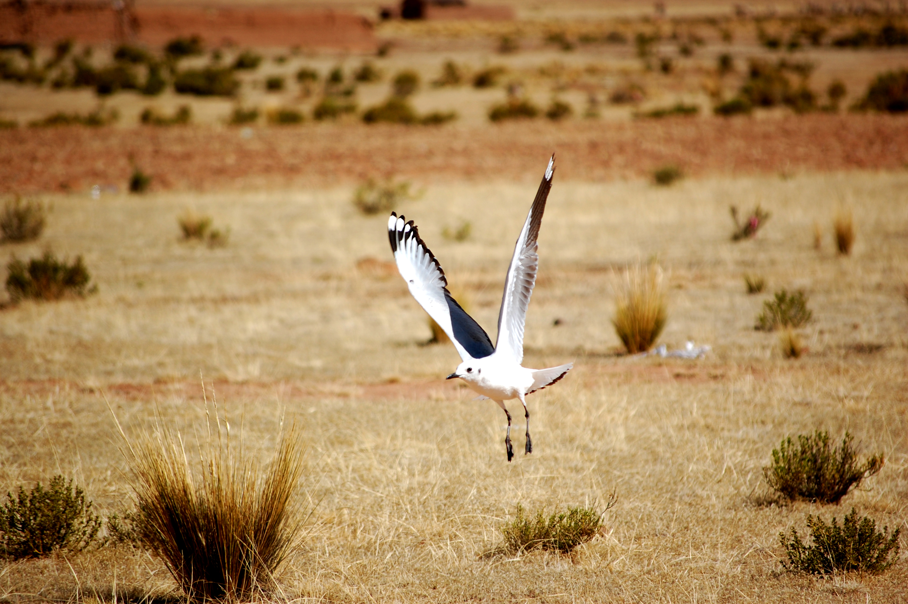 Andean Gull (Chroicocephalus serranus) on the Altiplano (Bolivia), at the sat lake Huayrapata.